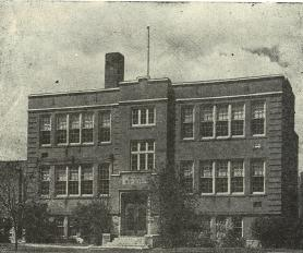 Original Building from 1925